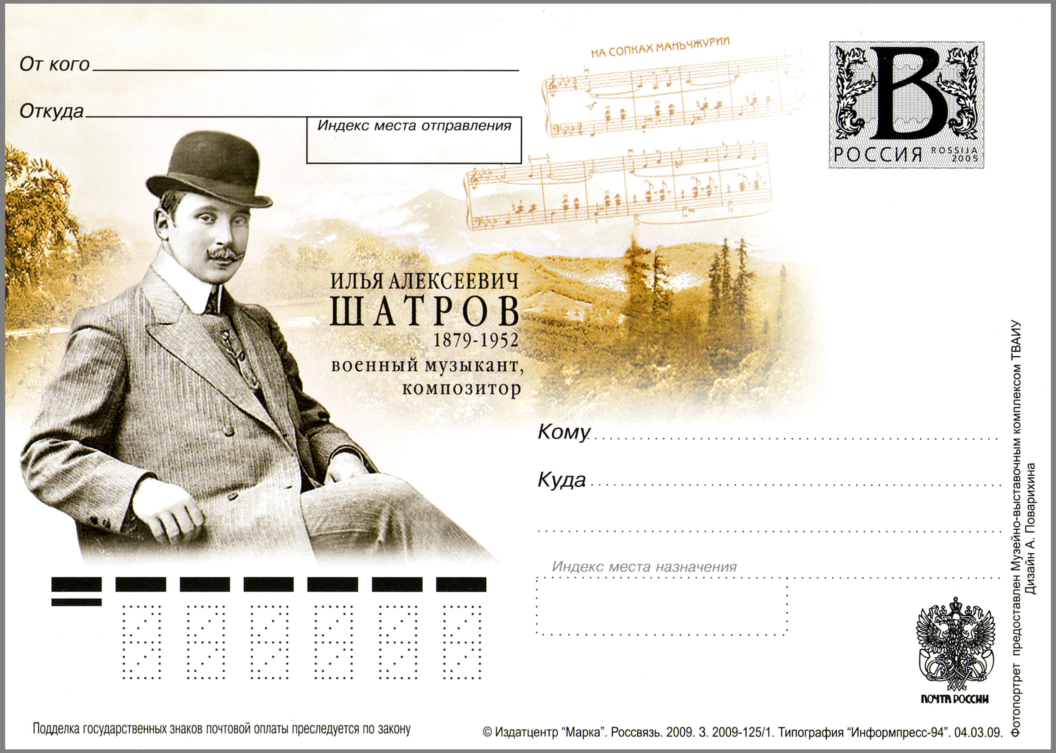 130th birth anniversary of the Russian military musician, bandmaster and composer Ilya Shatrov (1879–1952). The postal stationery card with the imprinted definitive non-denominated stamp “Letter B”, Russia, 1 April 2009, PTC Marka Catalogue No 137-о/2009 (2009-125/1). Coated paper. Offset printing. Size of the postal card: 105×148 mm. Print run 10,000. The portrait of Ilya Shatrov, the photo from the museum of the Tambov Higher Military Aviation School of Engineers. The musical notation of the best known work created by I. Shatrov – the waltz On the Hills of Manchuria.